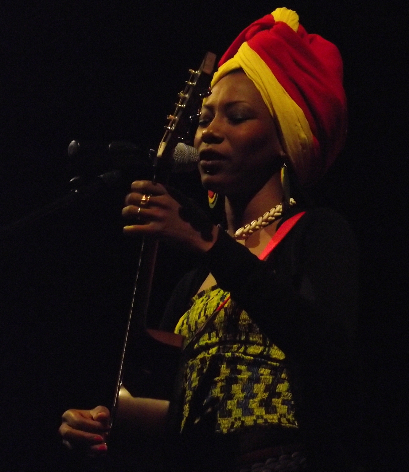 Fatoumata Diawara. Leyden Concert, Leyden City Theater (Leidse Schouwburg), concert 30 October 2012.